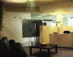 View of Design Team One office through front door.